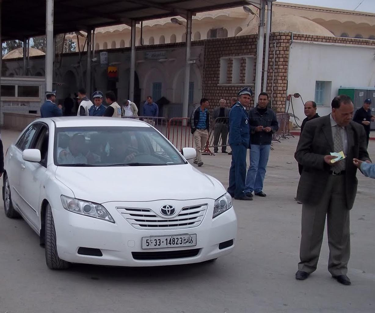 [Monia Ghanmi] Hospitals in Tunisia are overflowing as Libyan refugees stream across the border.